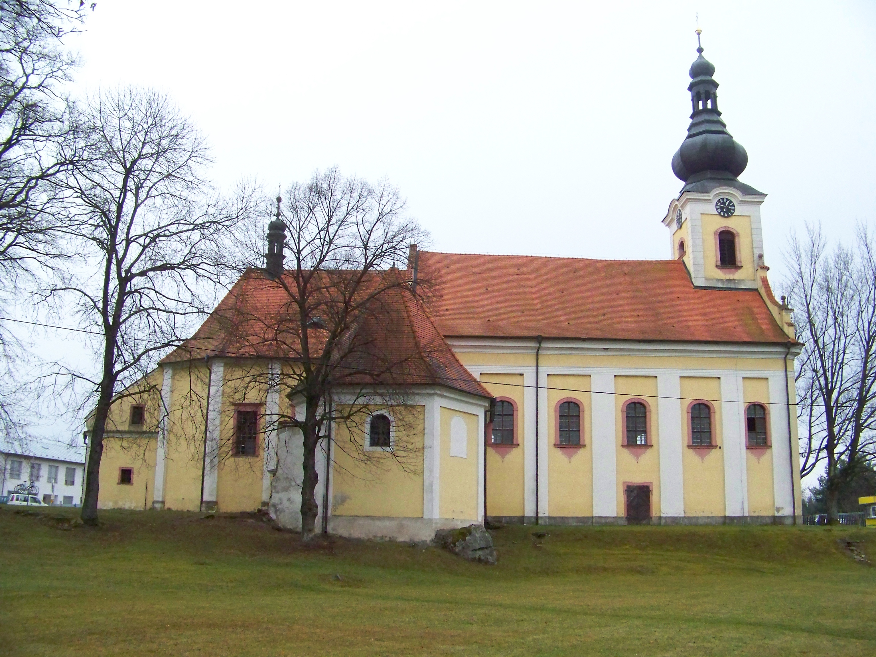 Church of Our Lady of the Snow in Svatý Kámen (Holy Stone)